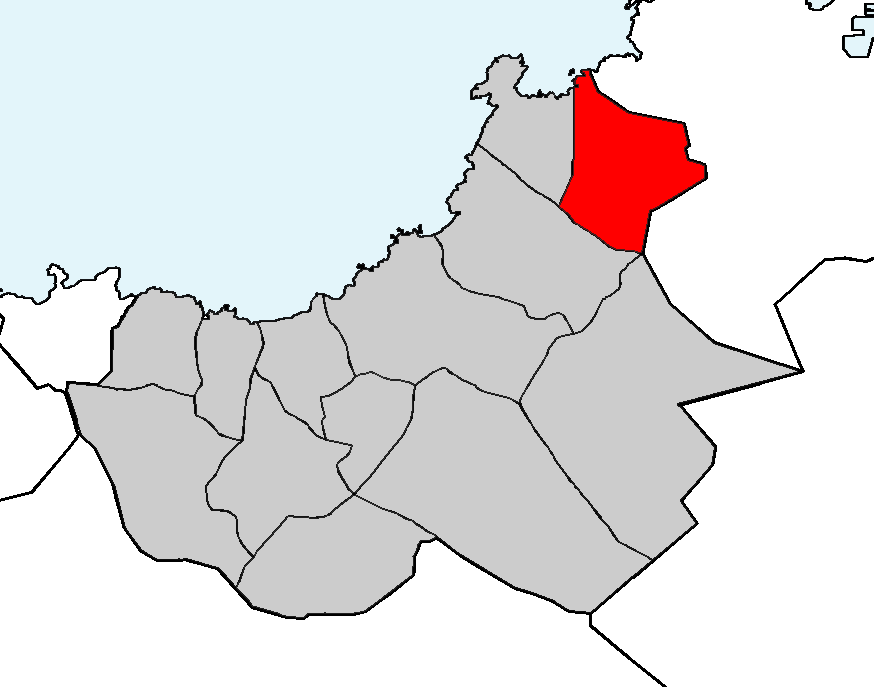 Location of the parish of Pastoriza in the municipality of Arteixo (Galicia, Spain)